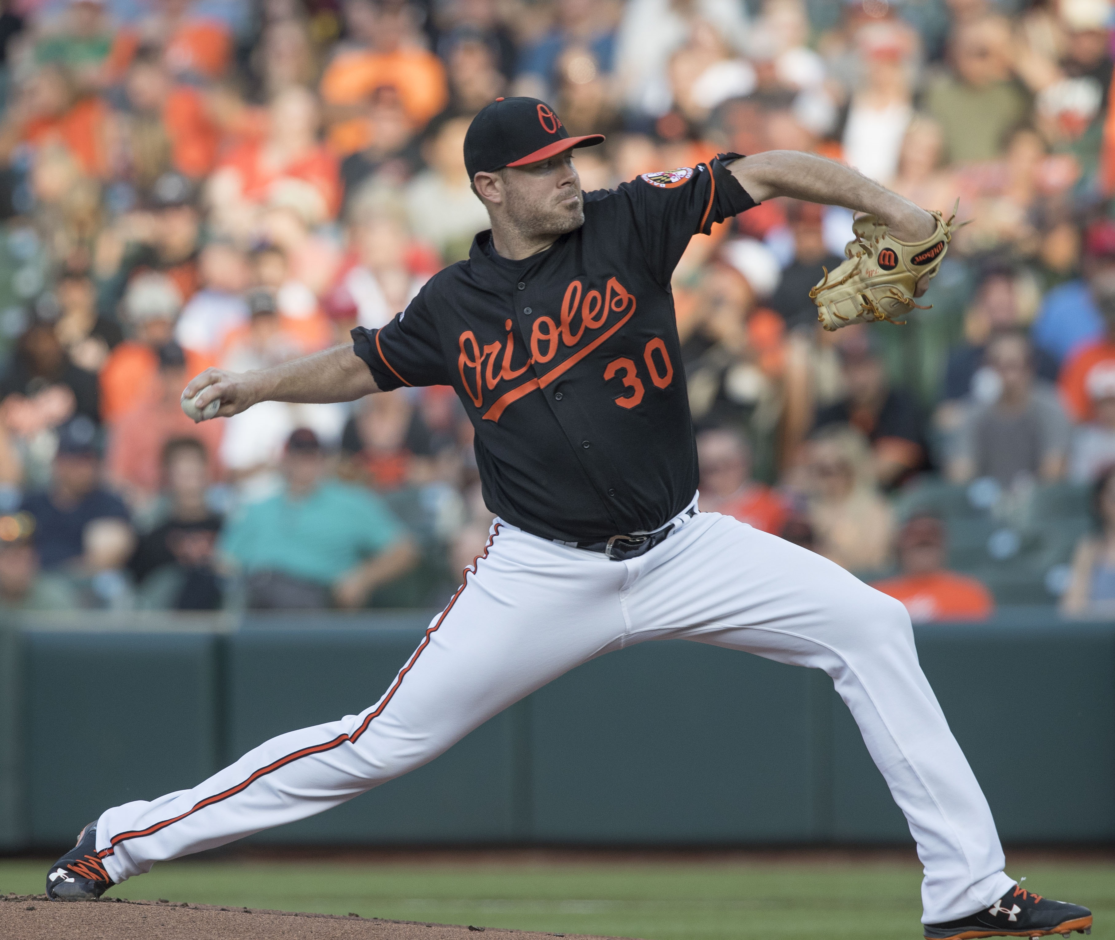 Rays at Orioles 6/30/17